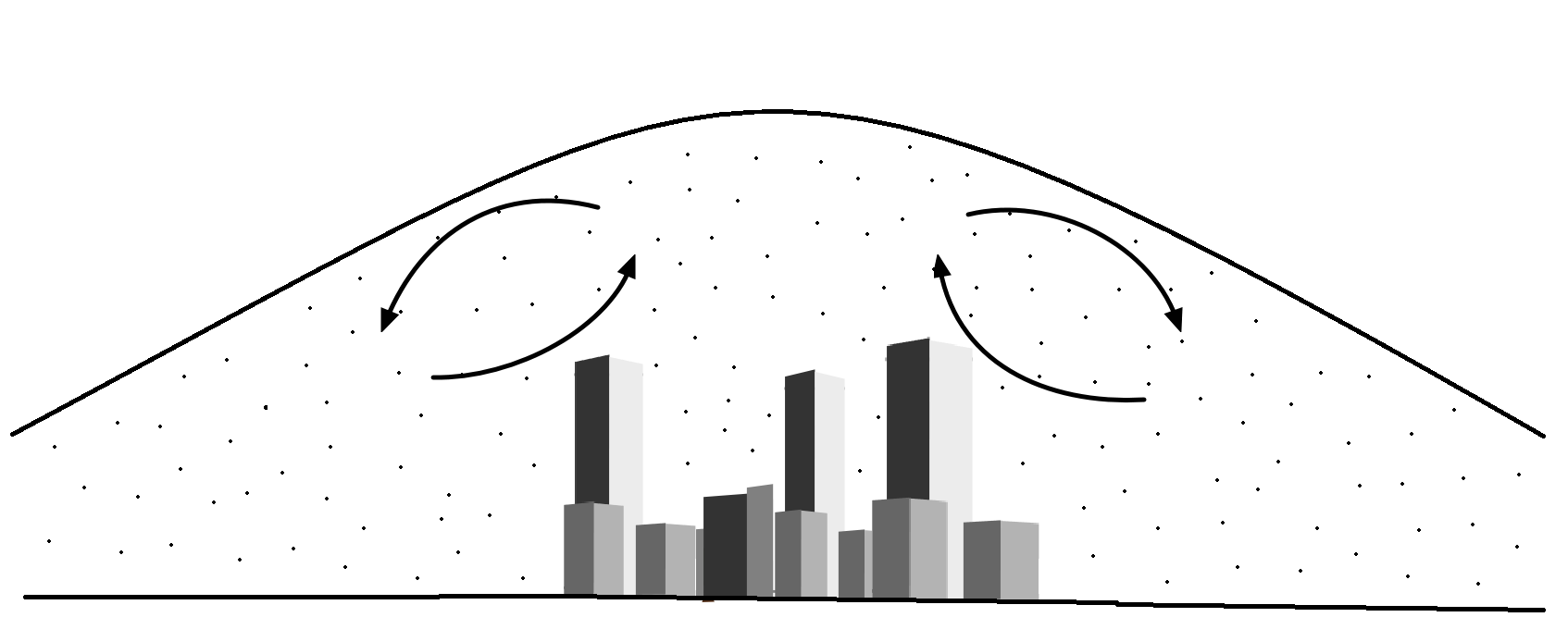 heat island circulation